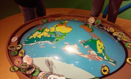 Lunada Children Museum